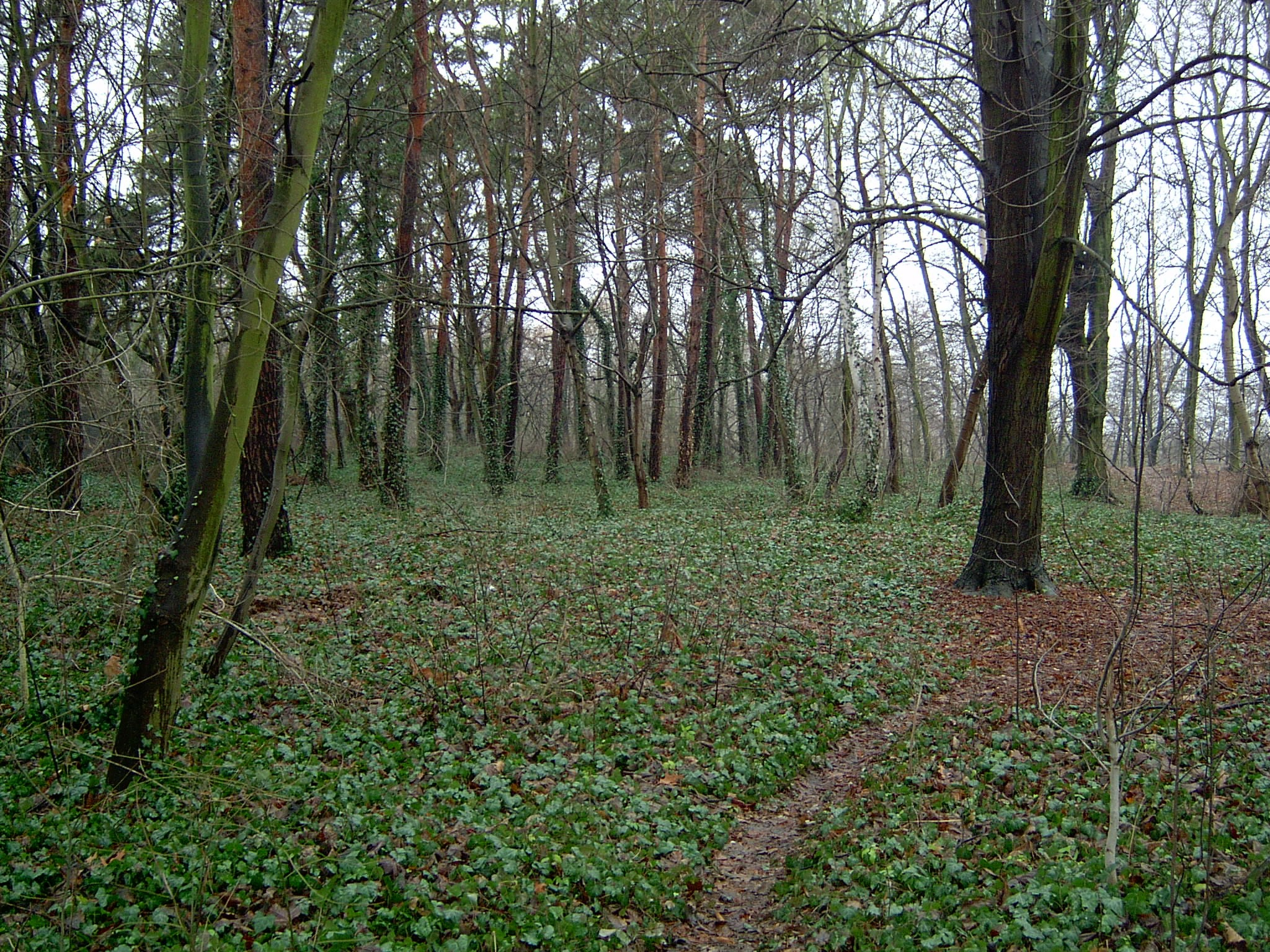 Fagus sylvatica & Pinus sylvestris forest with Hedera helix in Szczecin Zdroje (NW Poland)